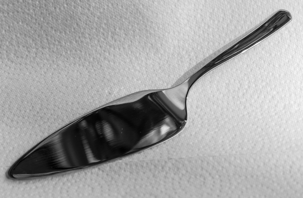 Cake scoop